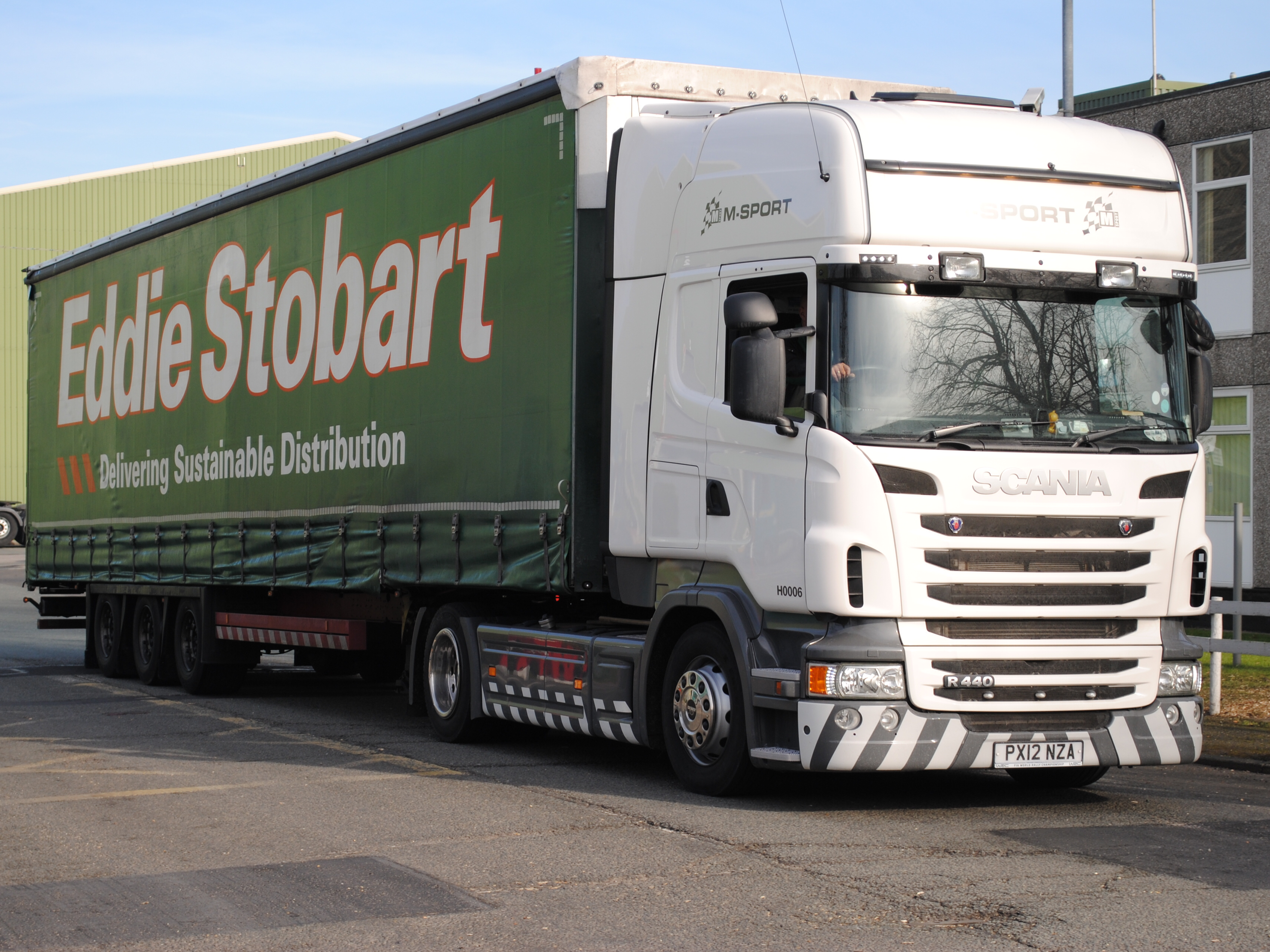 Scania R440. seen here in Hawleys Lane depot, Warrington